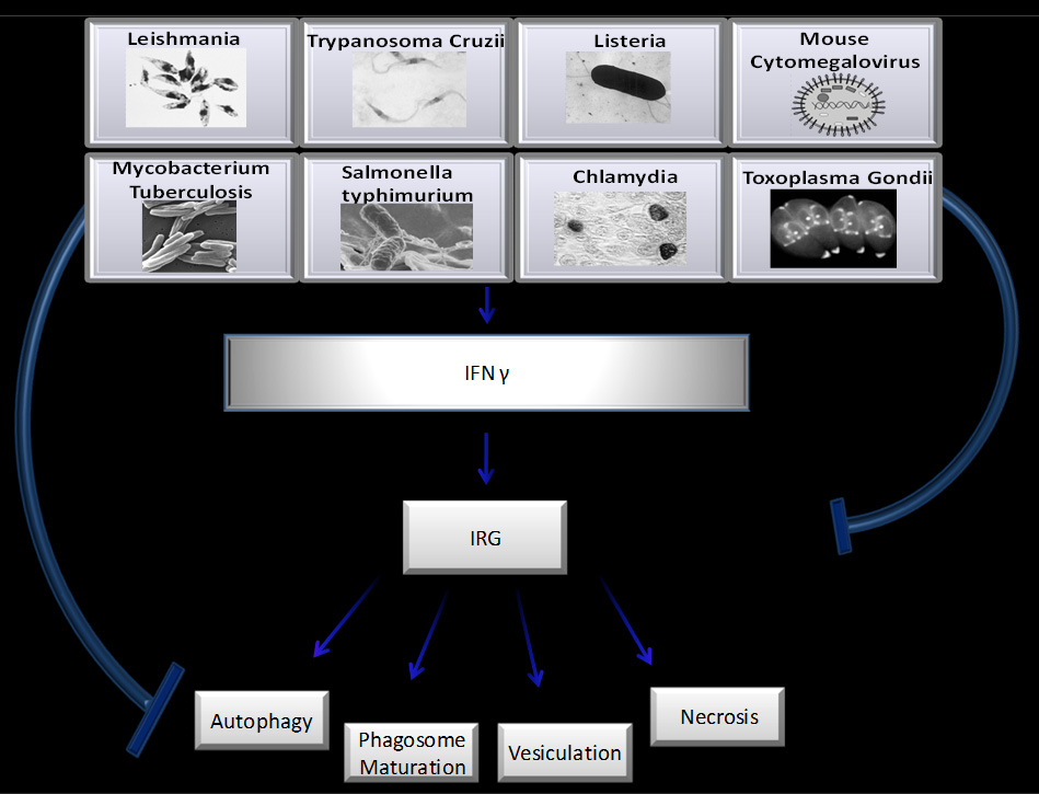 Trypanosoma forms in blood smear from patient with African trypanosomiasis. Trypanosoma forms in blood smear from patient with African trypanosomiasis. Parasite.